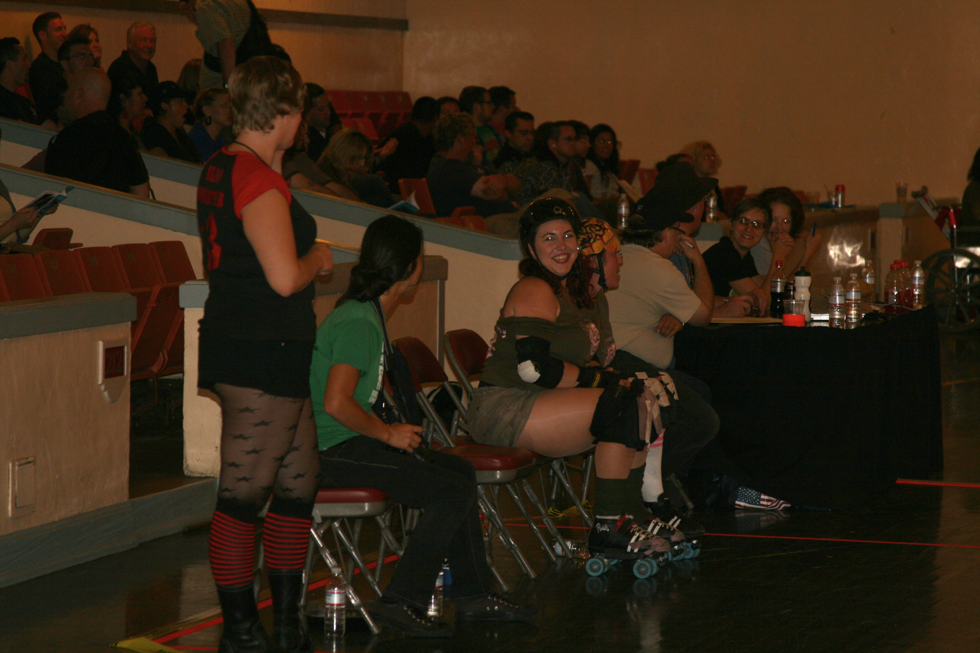 B.A.D. Girls - SF ShEvil Dead vs Oakland Outlaws - Sep. 08, 2007